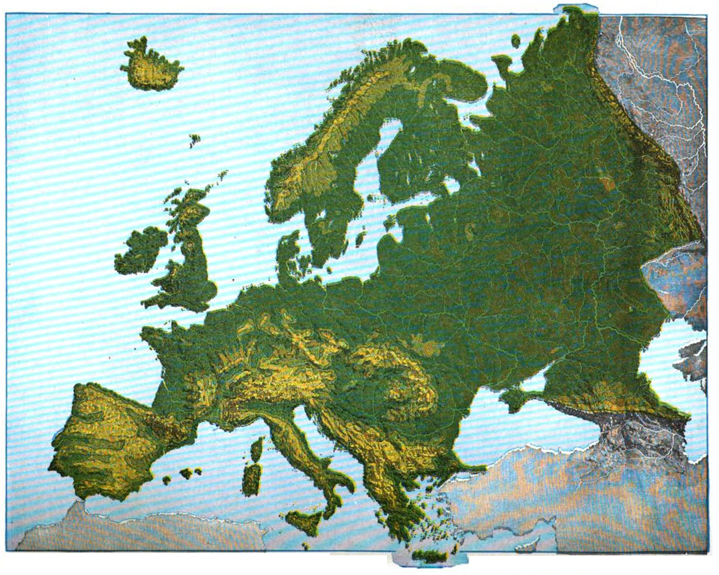 Relief Map of Europe, from Maury's New Elements of Geography for Primary and Intermediate Classes.